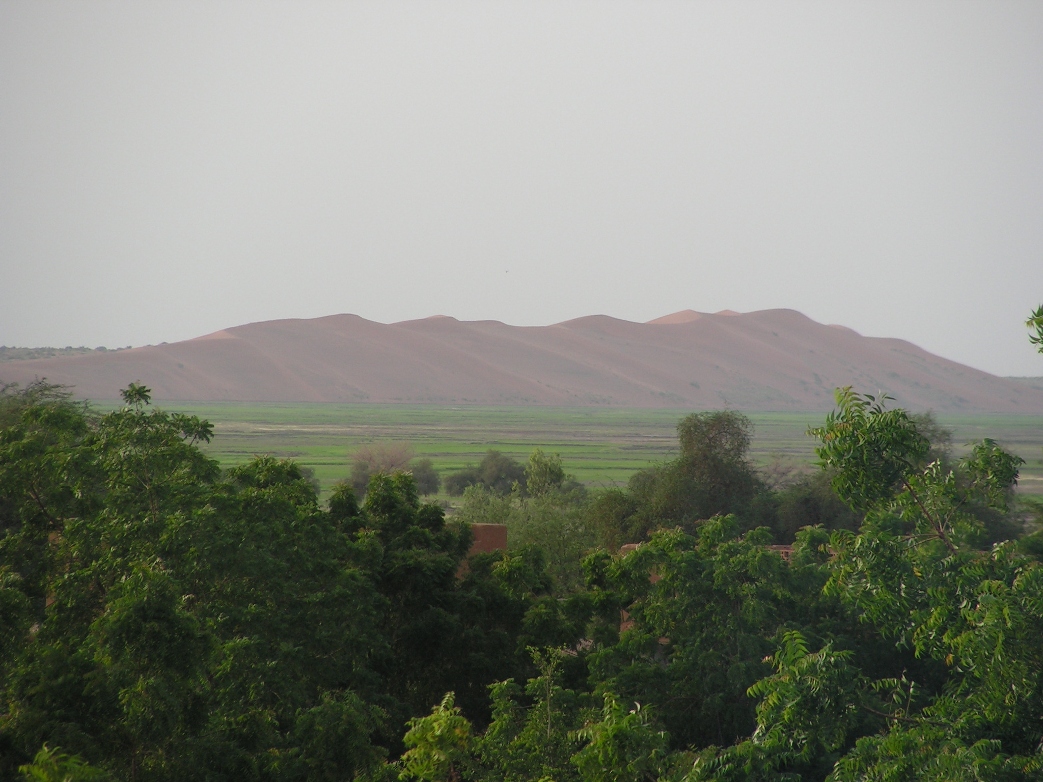 La Dune Rose, as seen from the top of the Tomb of the Askias.